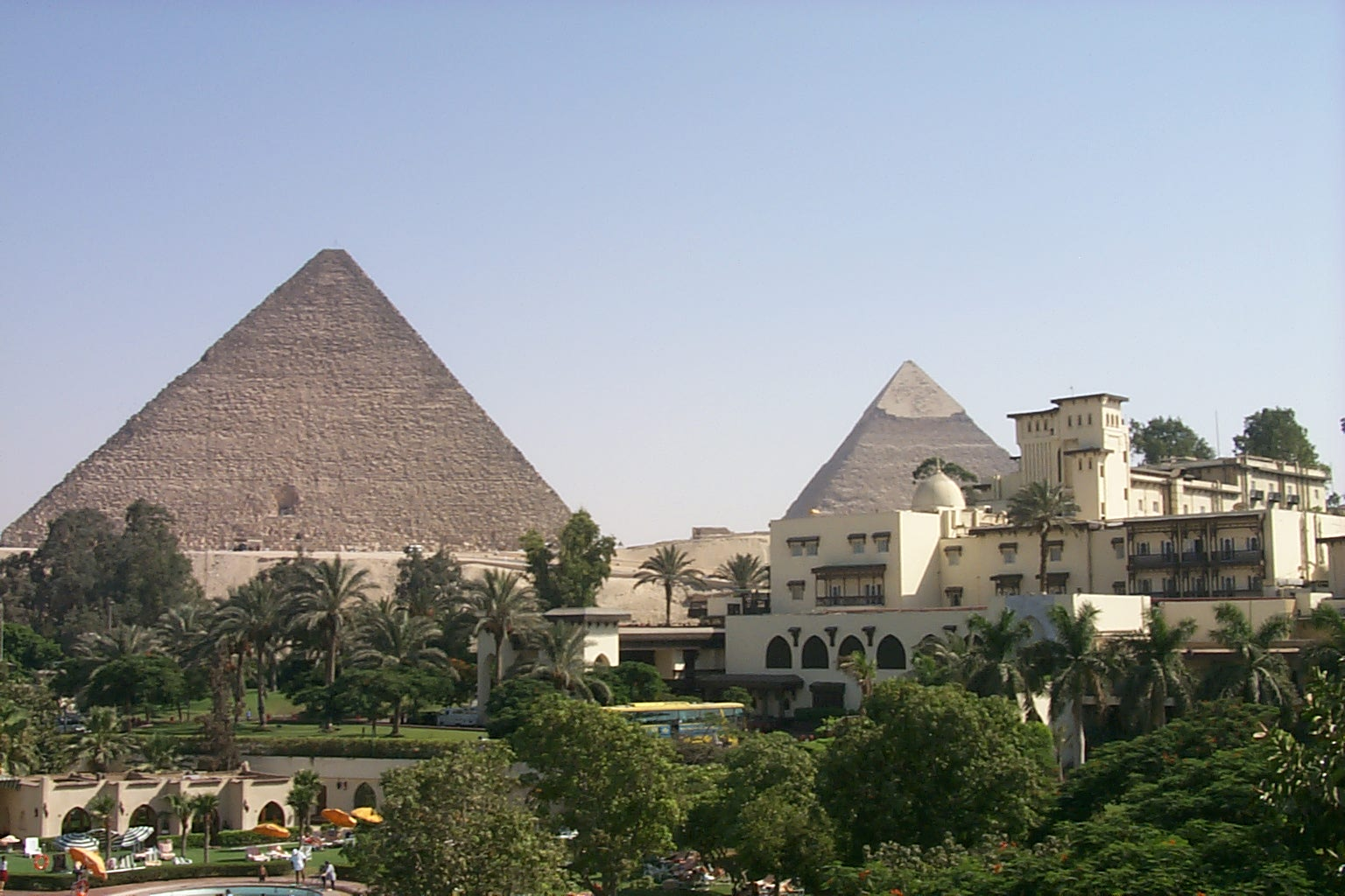 The view out of our hotel window, Giza, Egypt